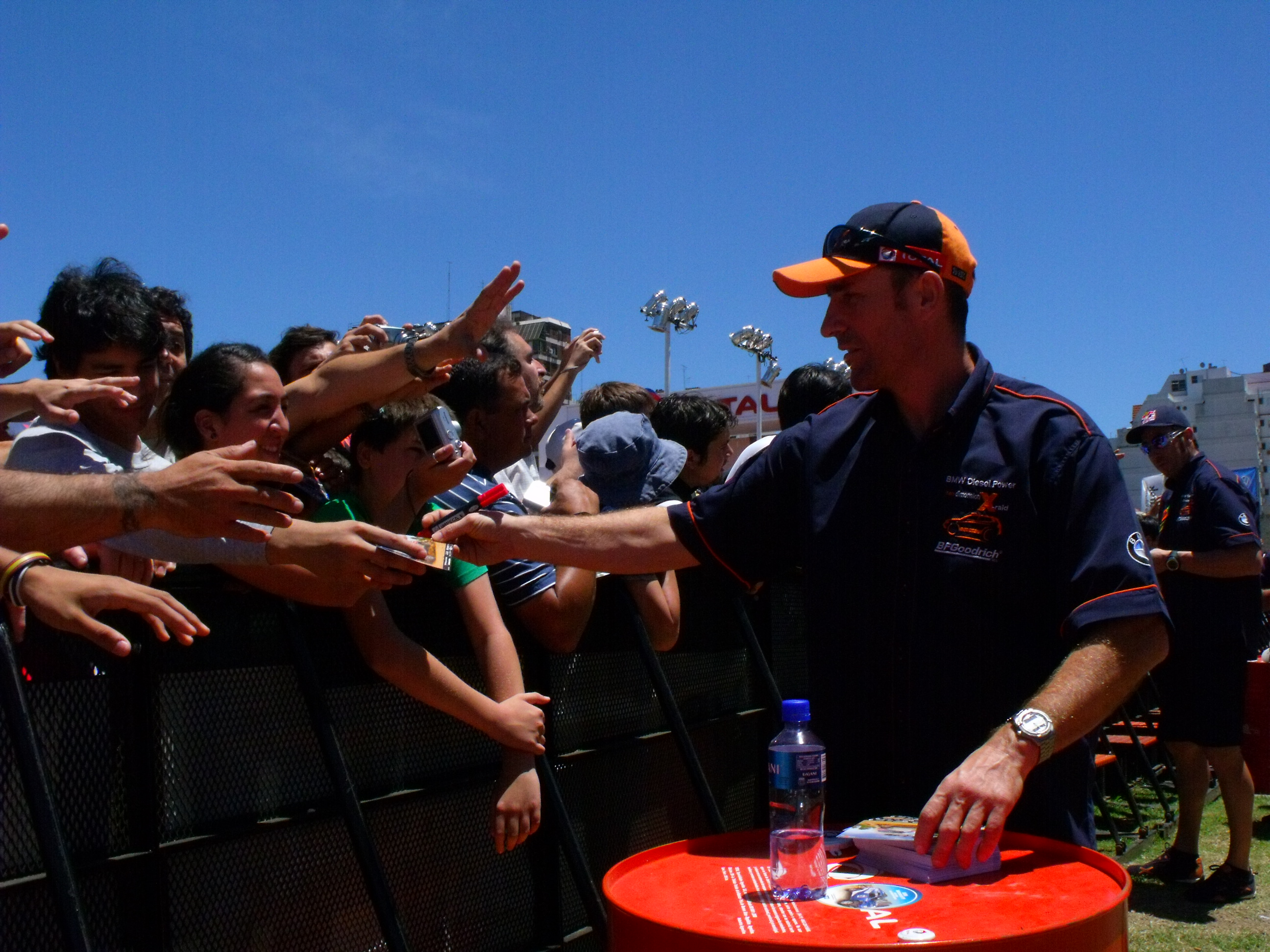 Stéphane Peterhansel signing autographs at Buenos Aires.